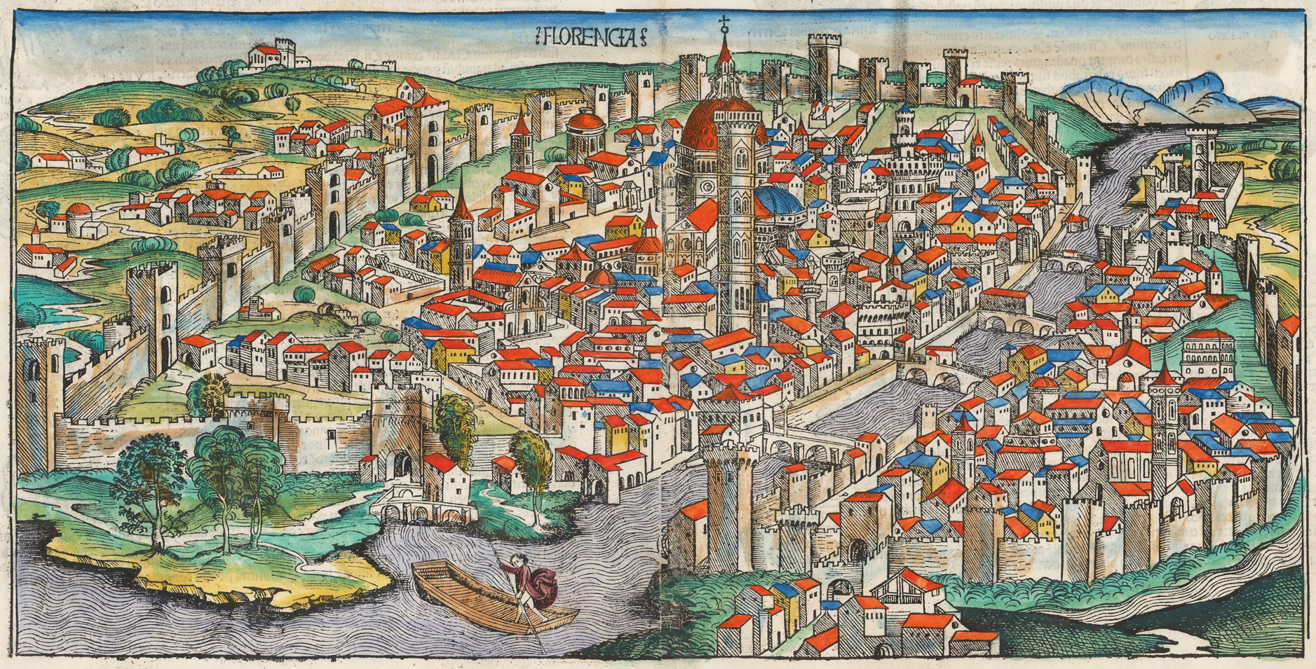 Woodcut of Florence (Firenze), Italy, from the Nuremberg Chronicle